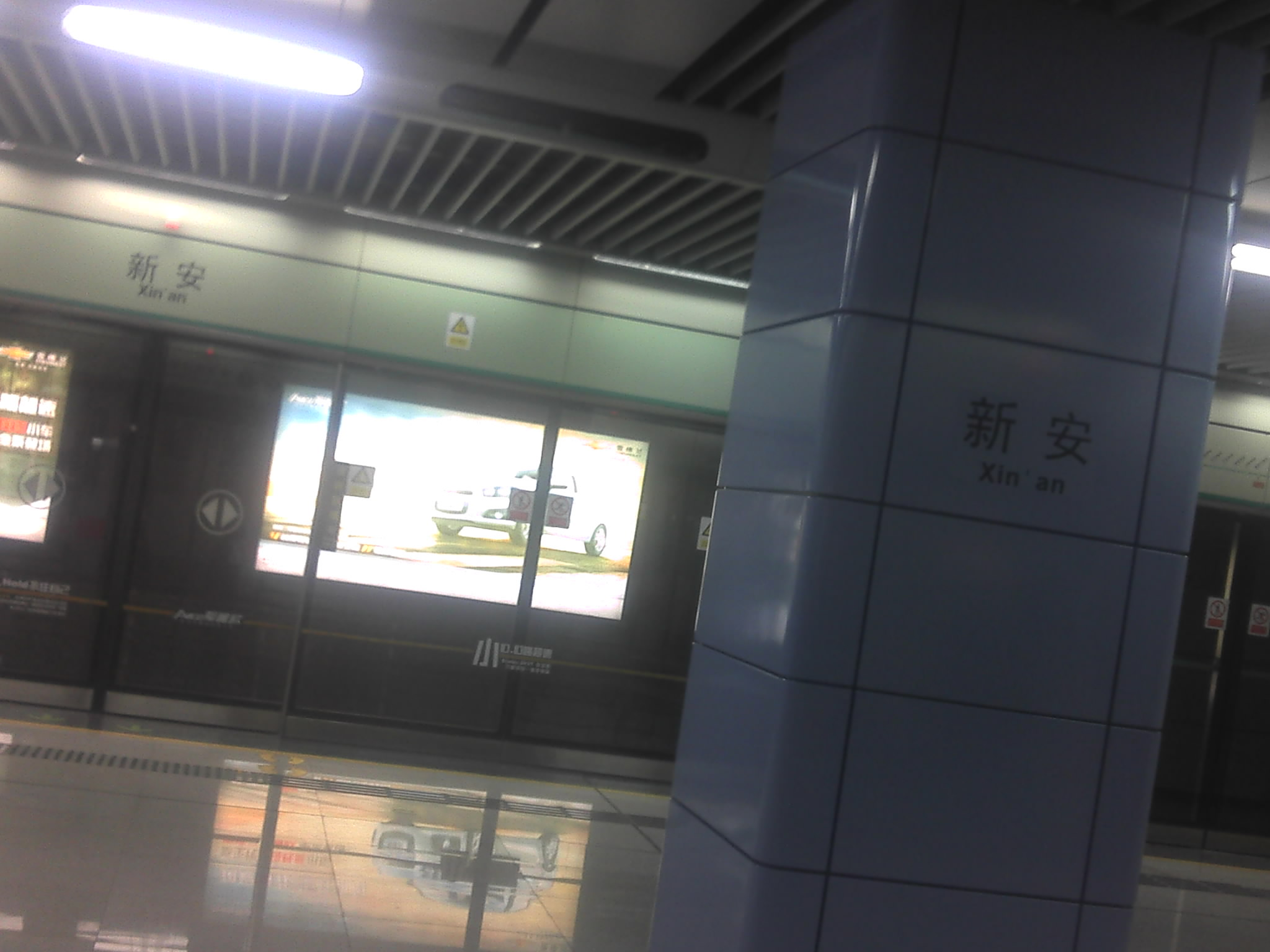 This photo was taken as Nov 19, 2011.